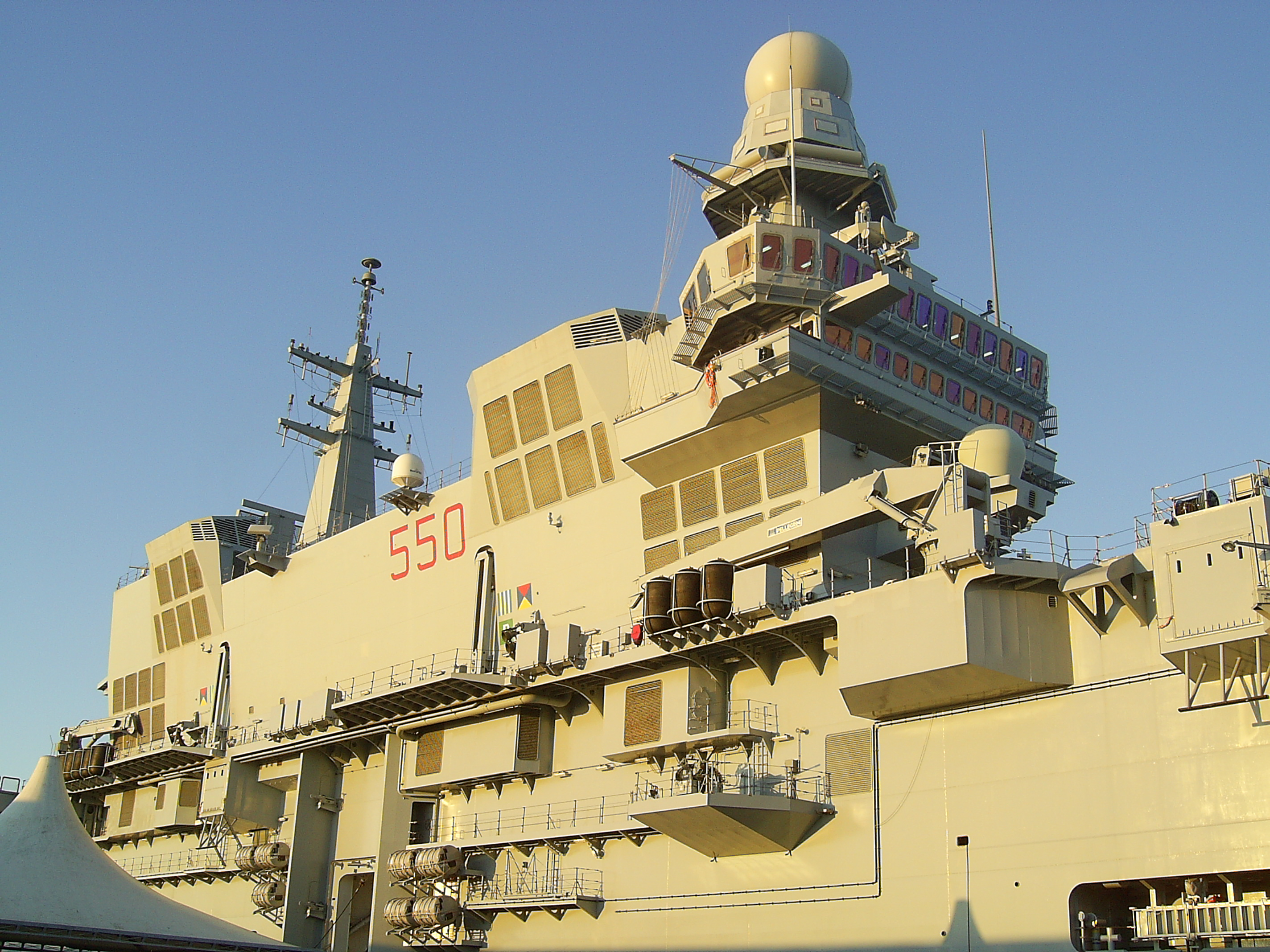 Right side of Cavour